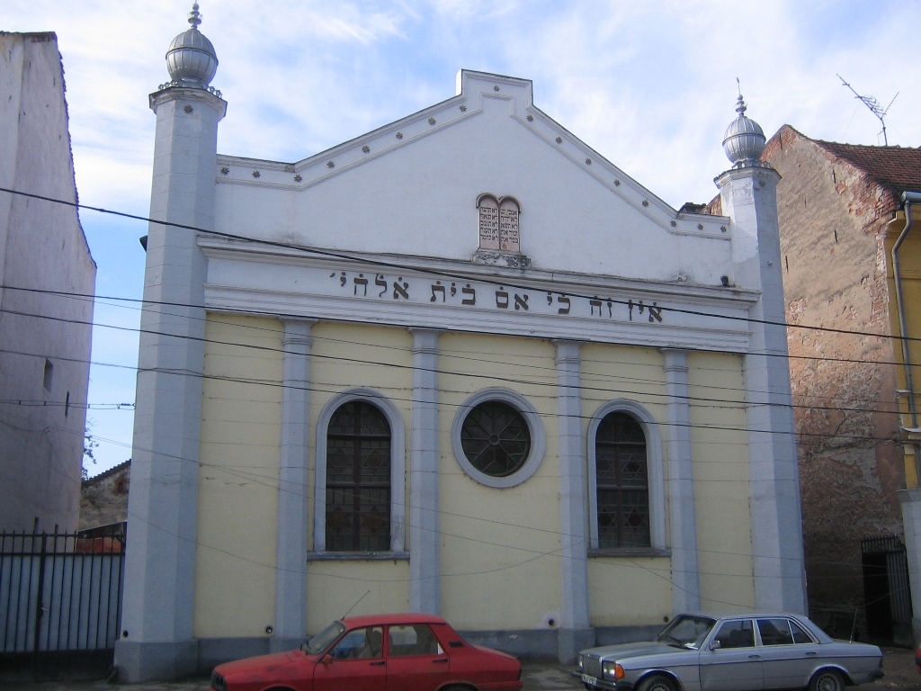 The "small" Synagogue in Lugoj, Romania